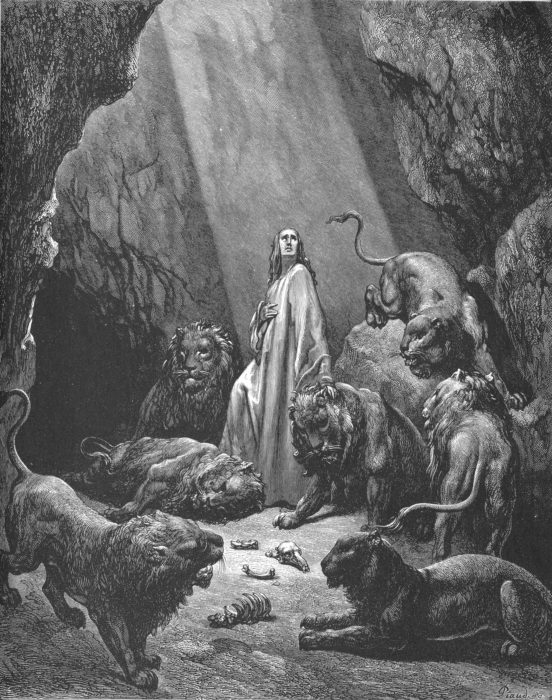 Daniel in the Lions' Den (Dan. 6:11-29)